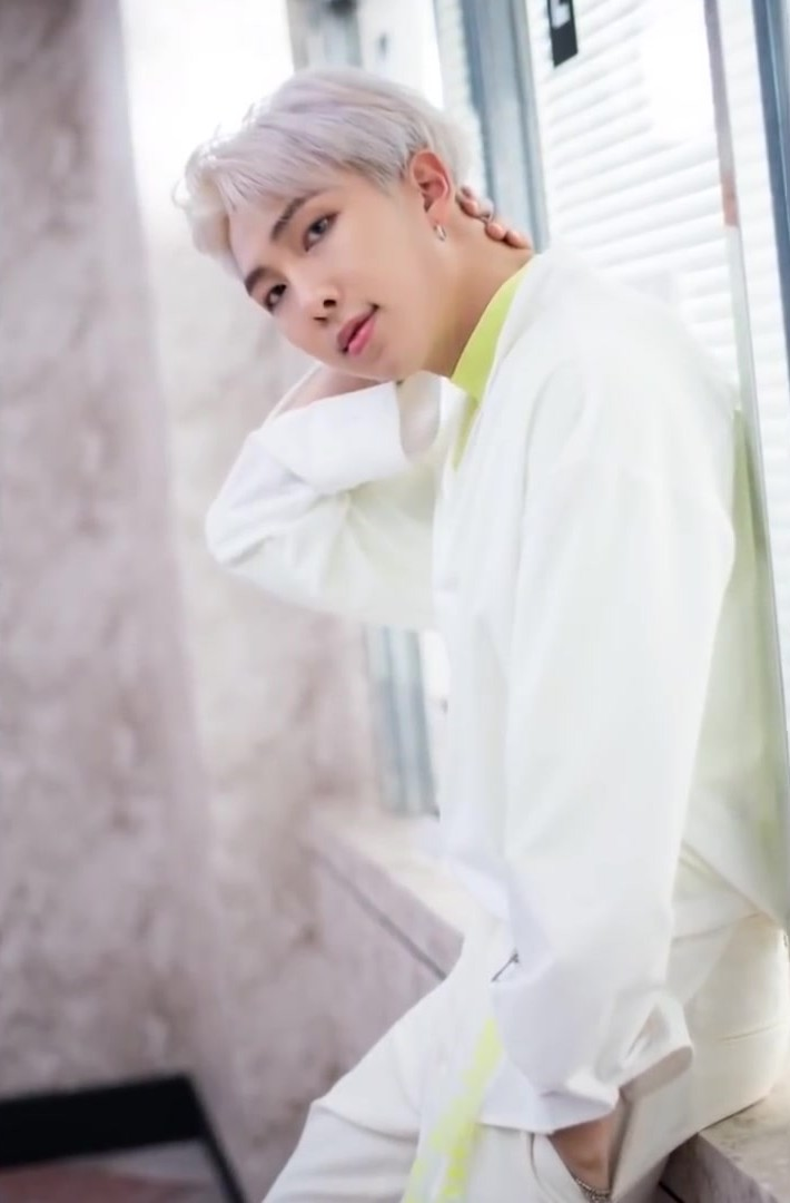 RM for Dispatch "Boy With Luv" MV behind the scene shooting, 15 March 2019